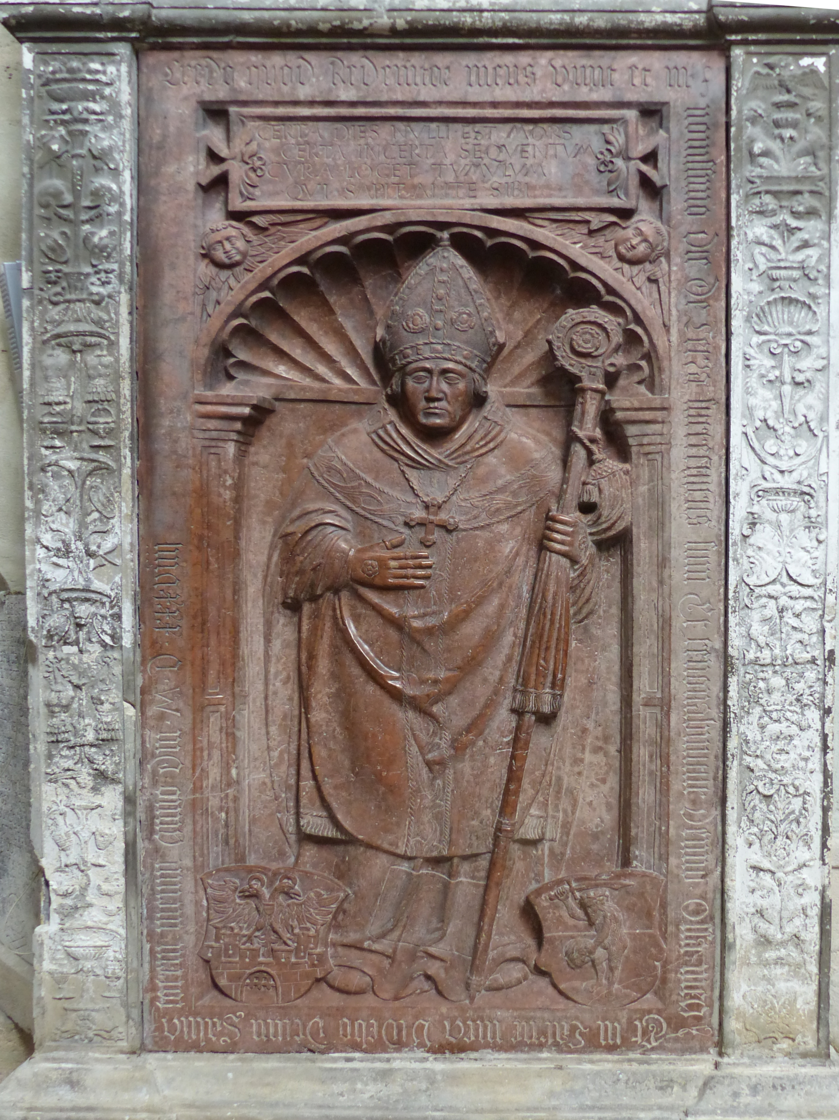 Wiener Neustadt ( Lower Austria ). Cathedral: Epitaph for bishop Gregor Anger ( 1590 )